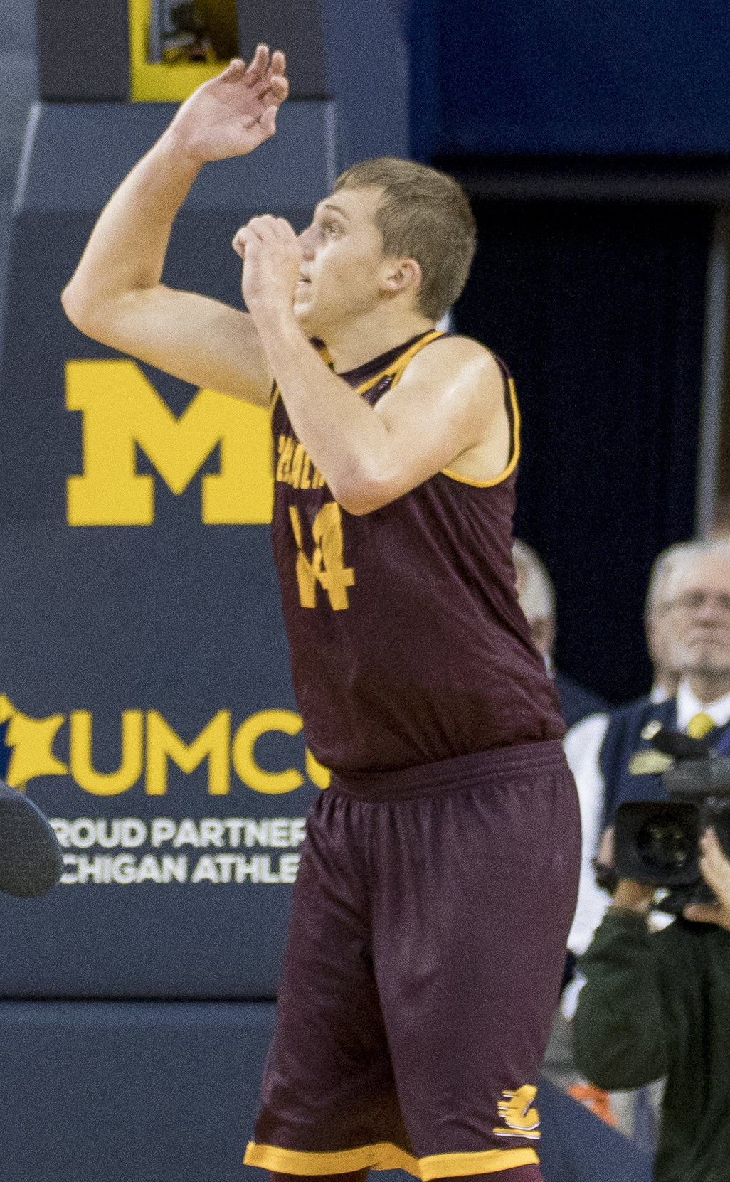 Michigan vs Central Michigan basketball 2017